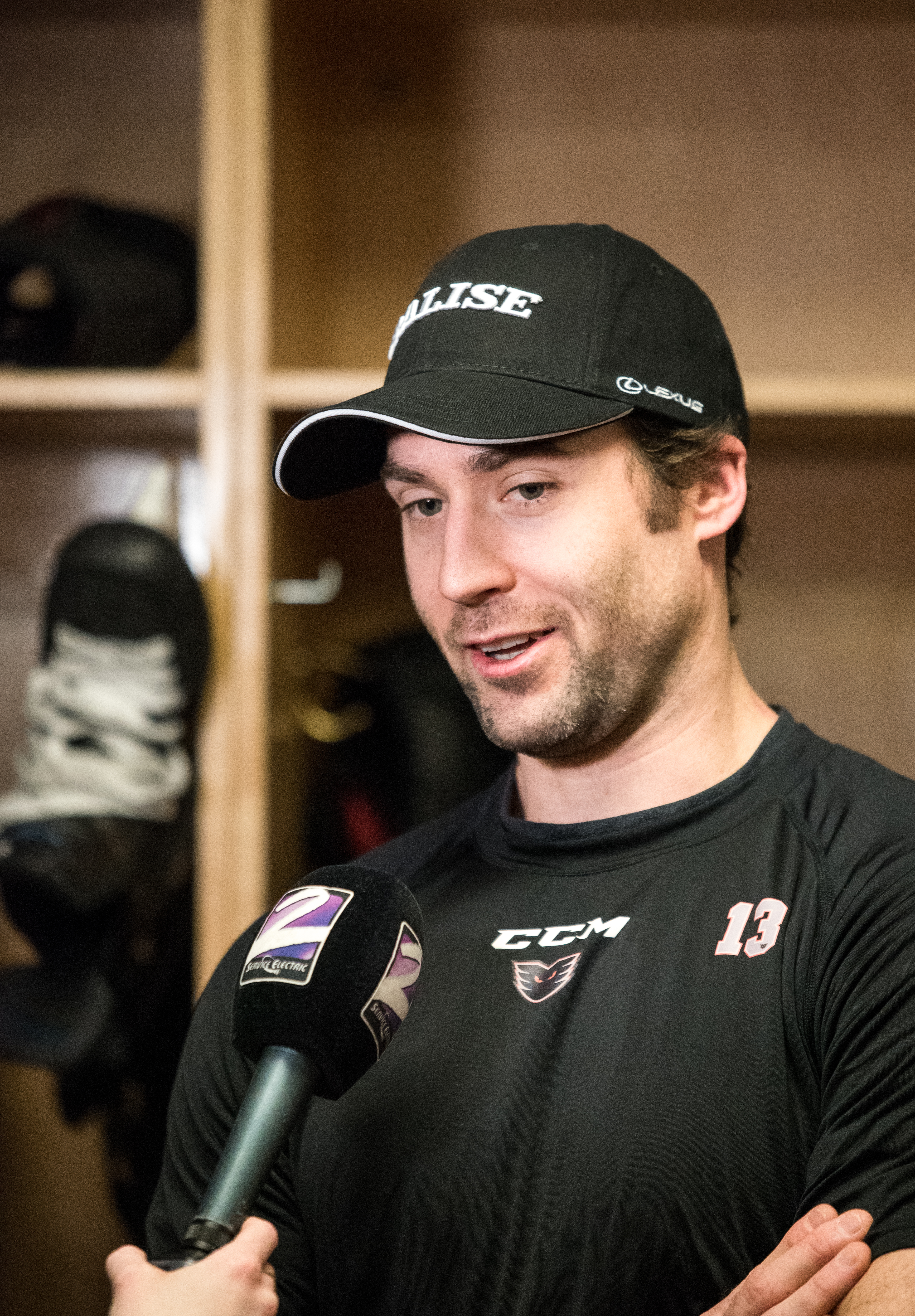 Photo by: China Wong